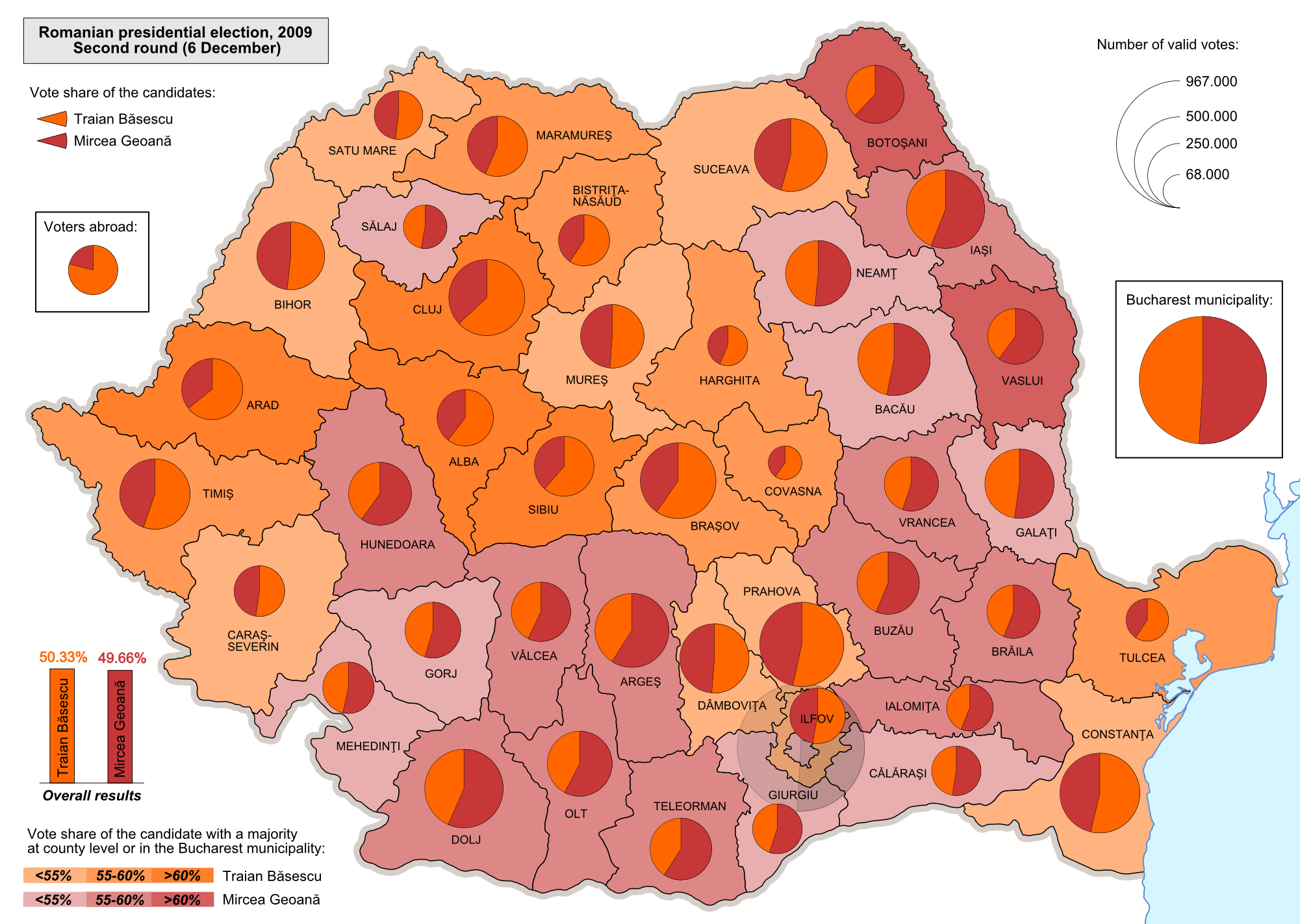 Results of the 2009 Romanian presidential election (second round) at county level and in the Bucharest municipality.